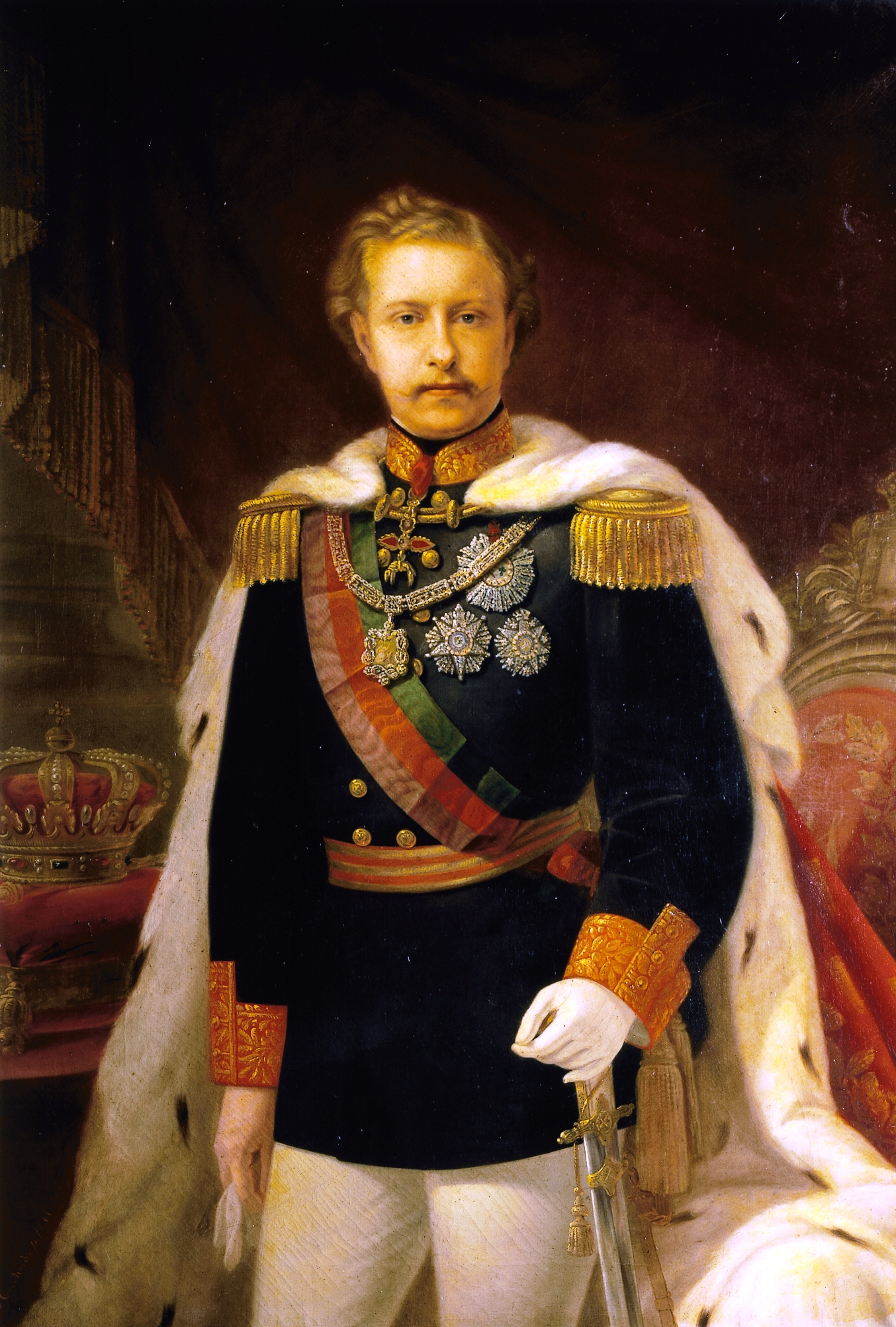 Portrait of Louis I, King of Portugal (1838-1889)